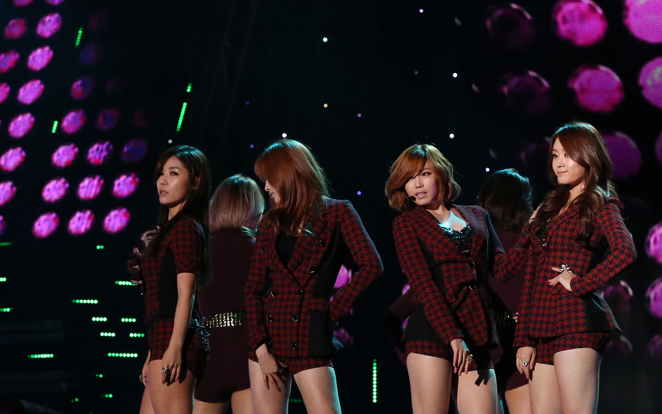 2012 K-POP World Festival Specisl Performance by 'Secret' Changwon, Korea 2012.10.28. Ministry of Culture, Sports and Tourism Korean Culture and Information Service Jeon Han 2012 K-POP 월드 페스티벌 시크릿 축하공연 경상남도 창원시 문화체육관광부 해외문화홍보원 코리아넷 전한